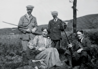 Photograph of shooting party in Scotland with Henry, Netty, Gervas and Anne HuxleyHuxle